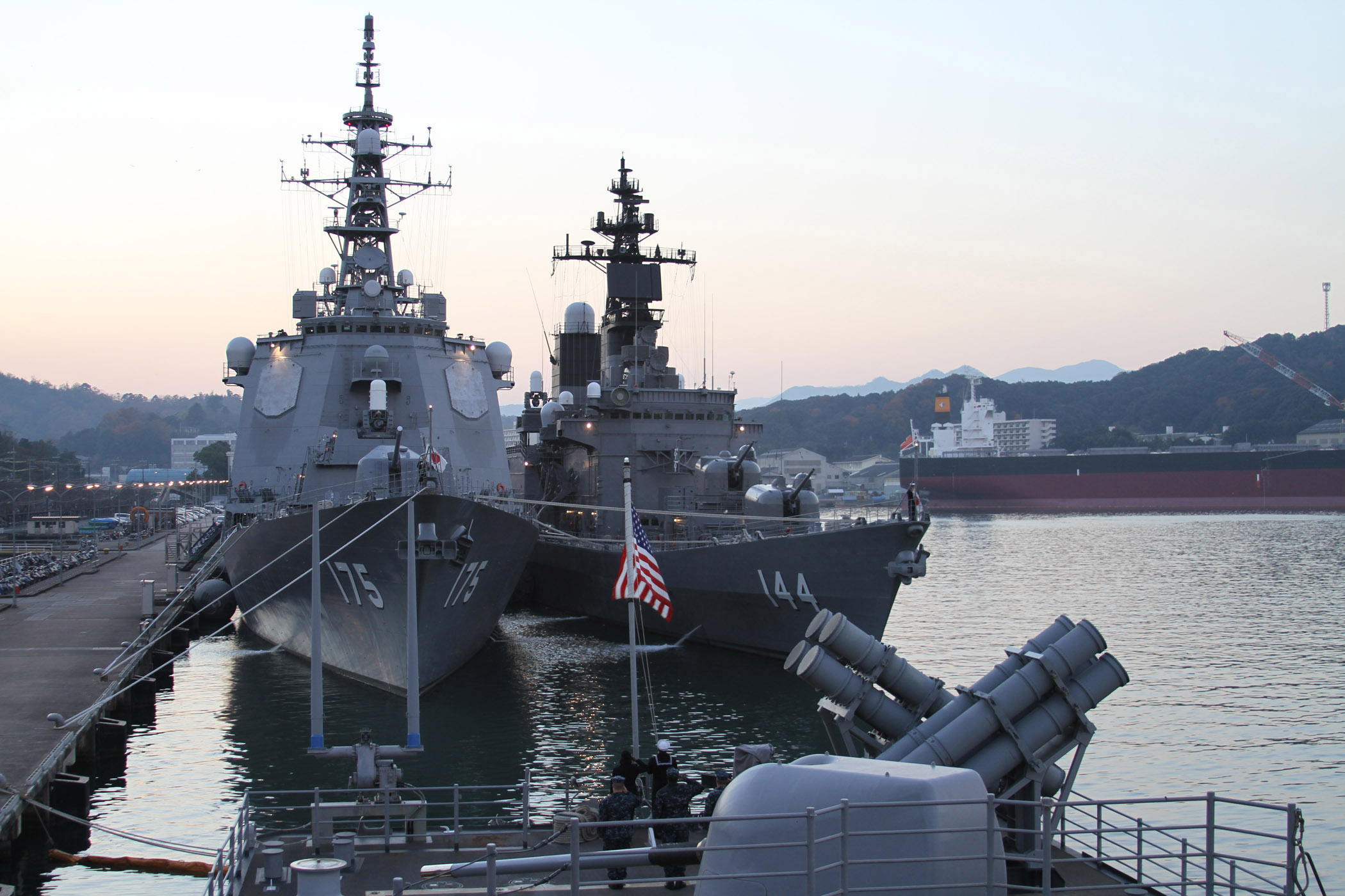 MAIZURU, Japan (Dec. 1, 2010) Sailors assigned to the guided-missile cruiser USS Shiloh (CG 67), the Japan Maritime Self-Defense ships JS Myōkō (DDG 175) and JS Kurama (DDH 144) render colors before departing Maizuru, Japan, to participate in Keen Sword 2011. This exercise enhances the Japan/U.S. alliance, which remains a key strategic relationship in the Northeast Asia Pacific region. (U.S. Navy photo by Lt. j.g. Nelson H. Balido/Released)